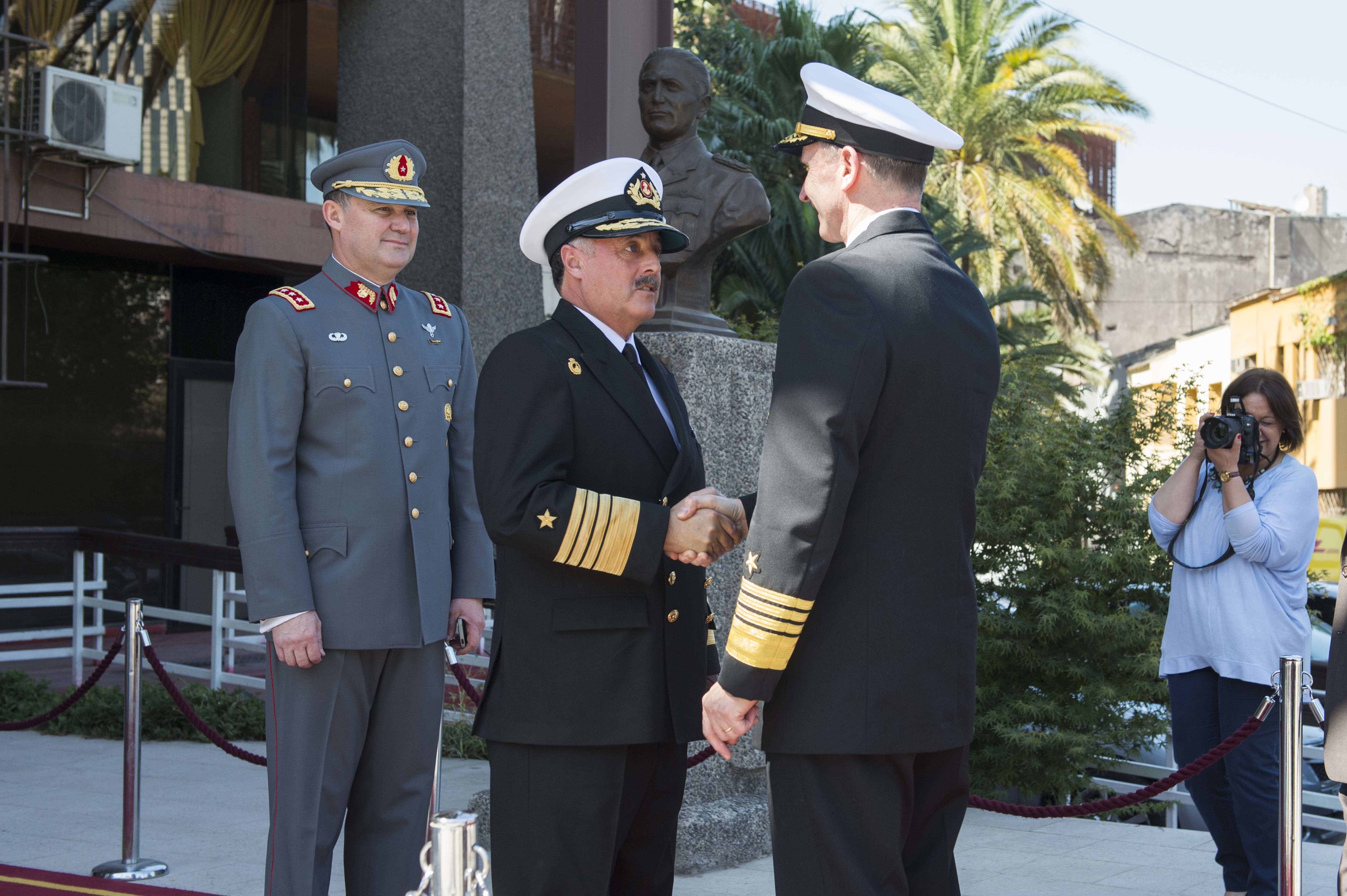 Chief of Naval Operations (CNO) Adm. Jonathan Greenert meets with Adm. Enrique Larrañaga, the chief of staff of the Chilean navy, at the Chilean ministry of defense. Greenert is in Chile to meet with defense leadership and tour Chilean navy and coast guard facilities during a counterpart visit. (U.S. Navy photo by Chief Mass Communication Specialist Peter D. Lawlor/Released)